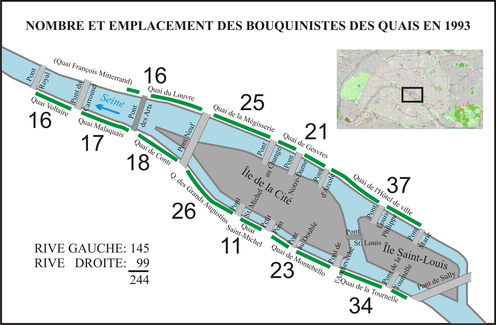 Number and placement of bouquinistes in 1993. File:1892 Hachette Plan or Pocket Map of Paris, France - Geographicus - Paris-hachette-1892.jpg used as template with embeded File:Paris 75 lle de France France.png. Data from Le Parapet Nr. 53. Histoire des bouquinistes, p. 10, June 2007.